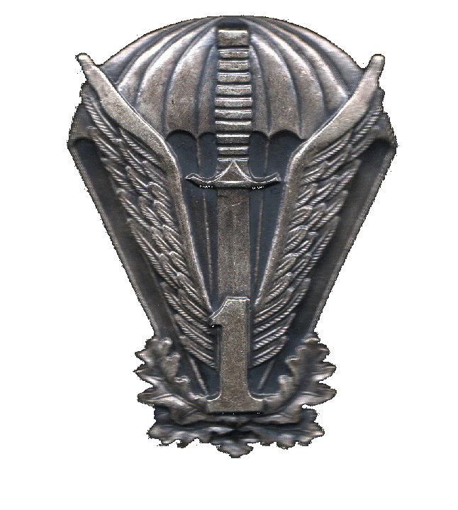 The emblem of the 1st Special Commando Regiment of the Polish Army